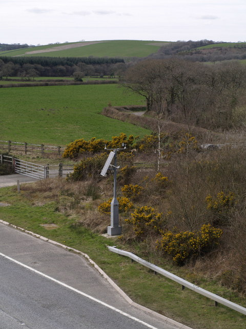 Weather station beside A30 Viewed from the bridge carrying the lane from Way Cross to Boasley across the dual carriageway. The gated road provides emergency vehicle access between the eastbound carriageway and the lane. The track bordered by trees behind this leads to Ebworthy Moor Farm and carries Bridestowe Bridleway 1a across the Thurhsek valley/